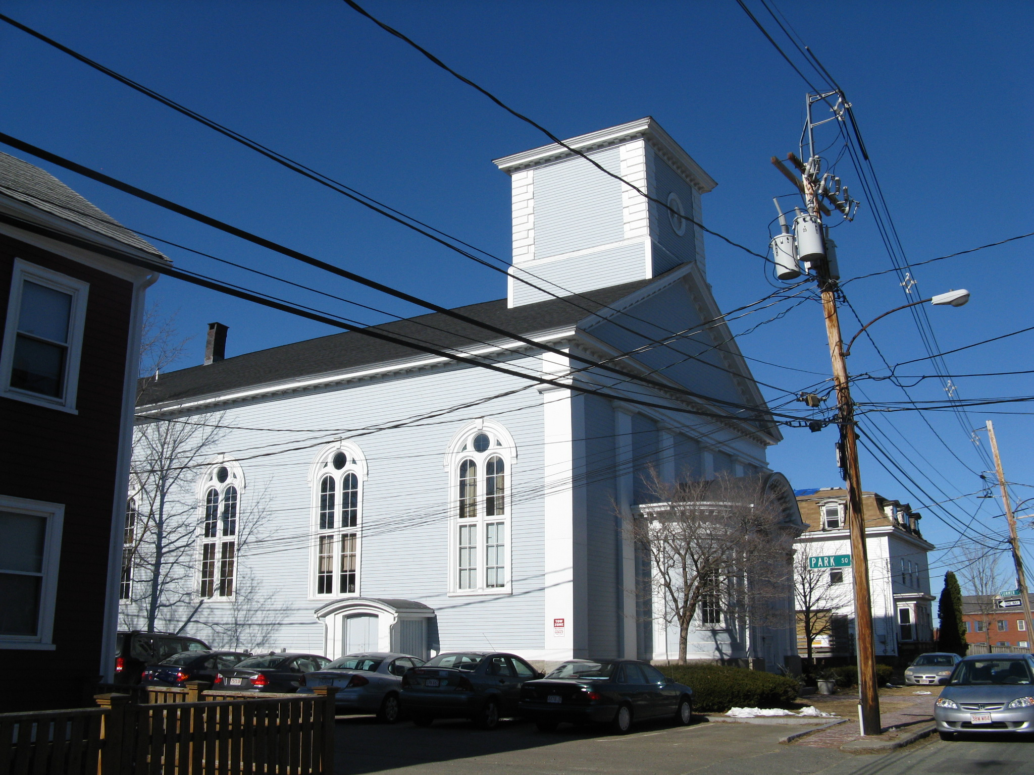 First Unitarian Church, Peabody Massachusetts - now converted into condos